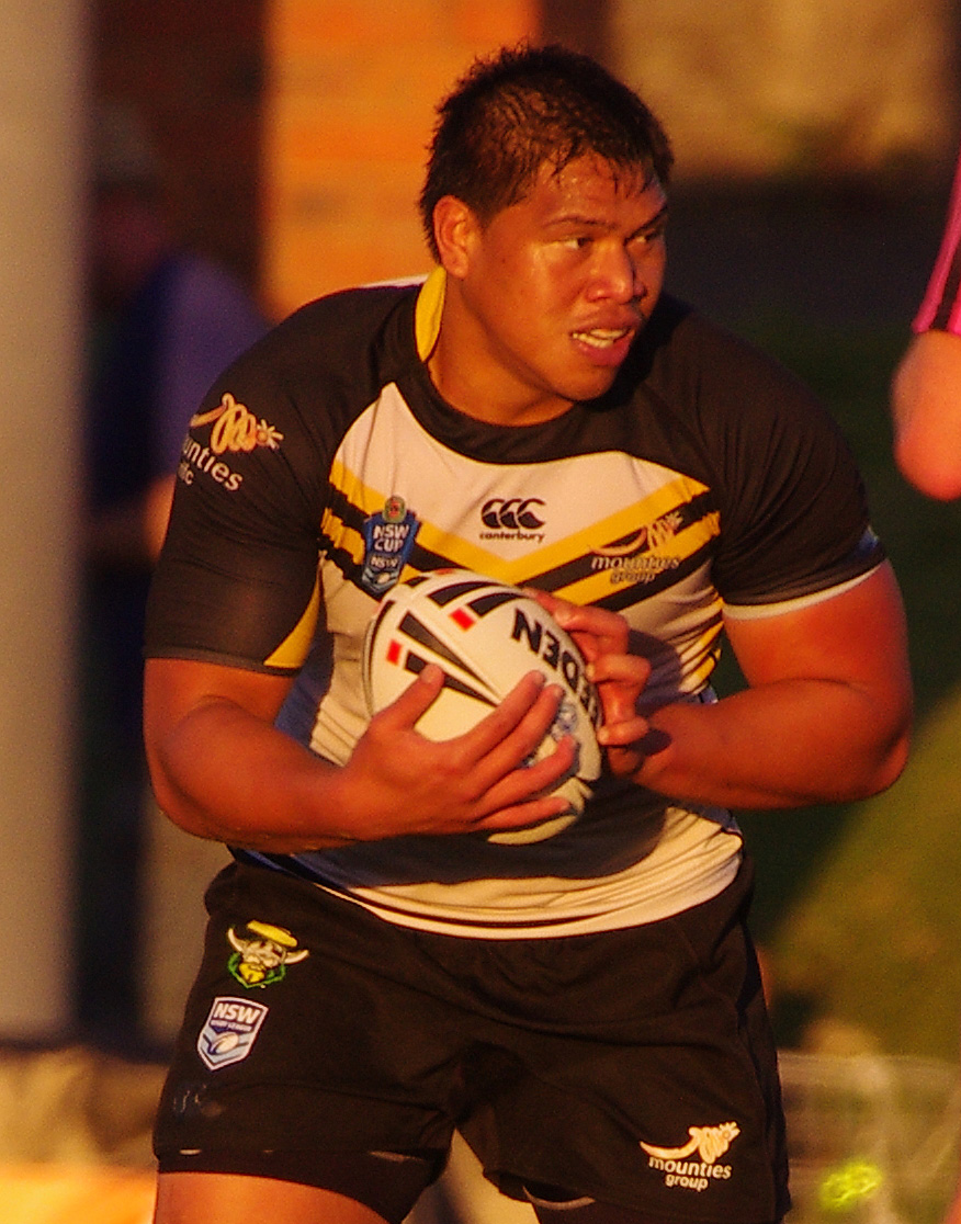 Sam Mataora